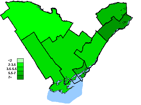 Map made by uploader (User:Earl Andrew); see [1] (question about source) and [2] (response).